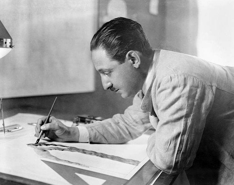 Photograph of scenic designer Lee Simonson